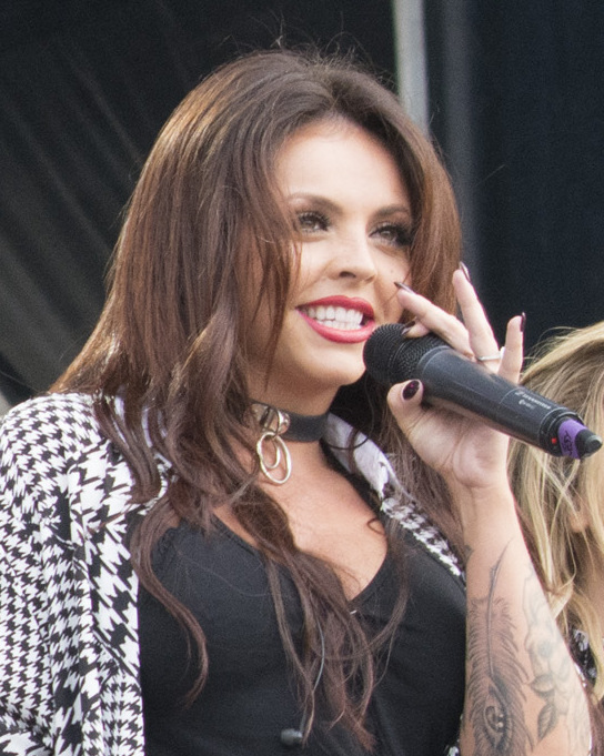 Little Mix at the Gibraltar Music Festival.